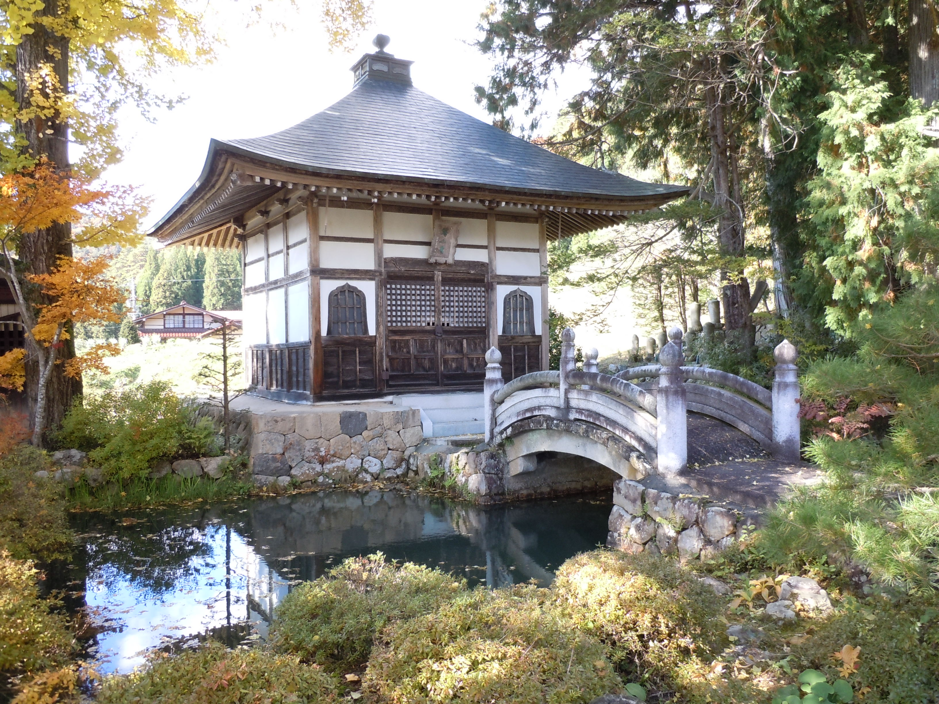 Ankokuji hida-kokufu hida-takayama